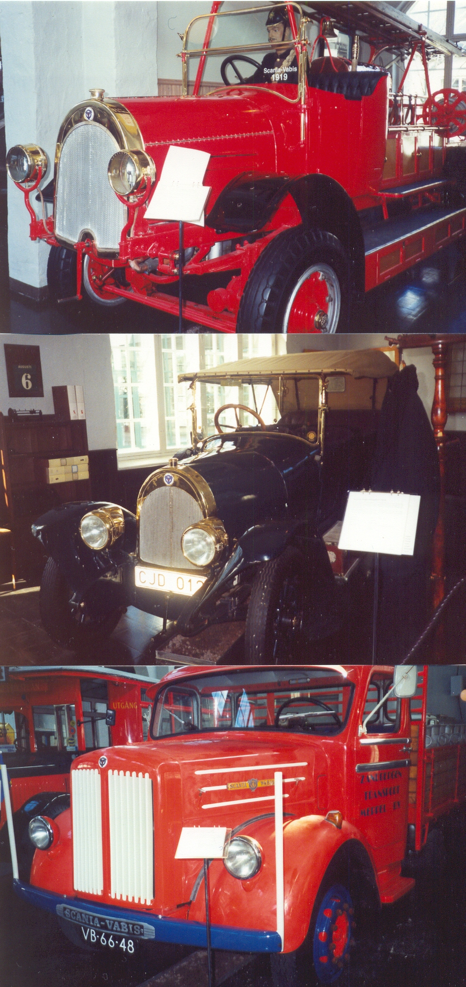 Exhibits at the Scania Museum This picture can be found in gallery Scania AB. (del) (cur) 16:43, 17 April 2006 . . Ballista (Talk) . . 947x2003 (1222400 bytes) (my own photo)